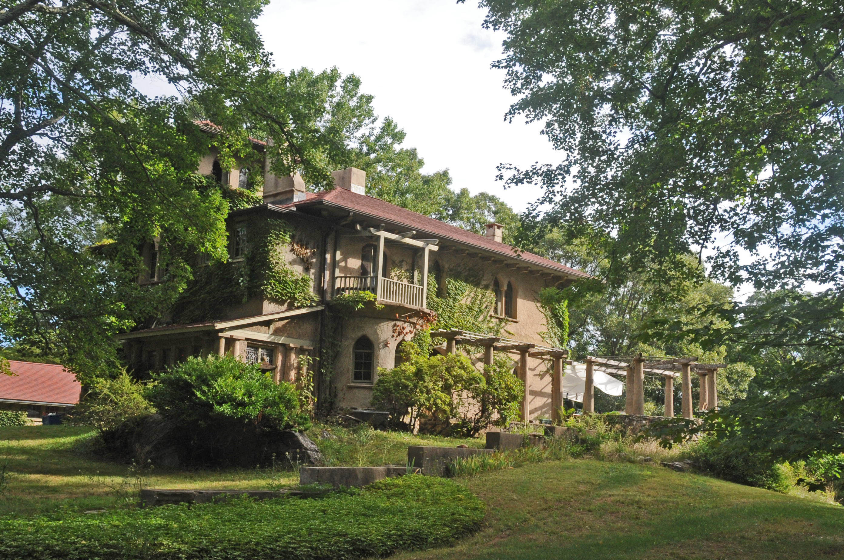 IT WAS BUILT IN 1908, AND WAS DESIGNED BY THE OWNER, EILA PIERRE, WHO WAS INSPIRED BY THE ITALIANATE ARCHITECTURE OF FARMHOUSES IN NORTHERN ITALY. THE CONSTRUCTION WORK WAS CONDUCTED BY MASONS WHO ALSO DID WORK ON THE NEARBY GILLETTE CASTLE